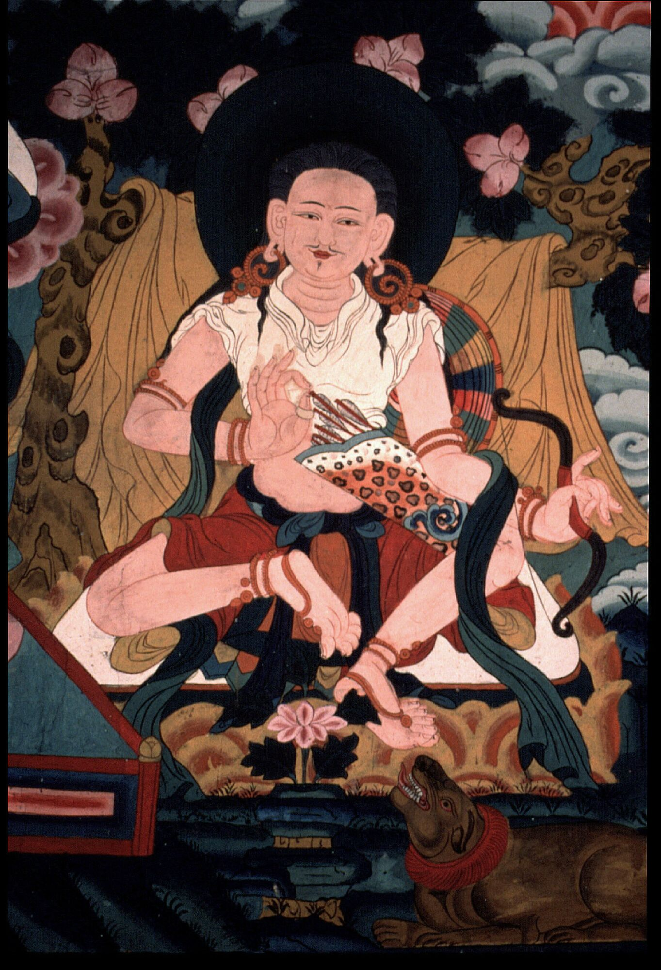 Drukpa Kunle b.1455 - d.1529